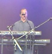 Steve Walsh of Kansas.